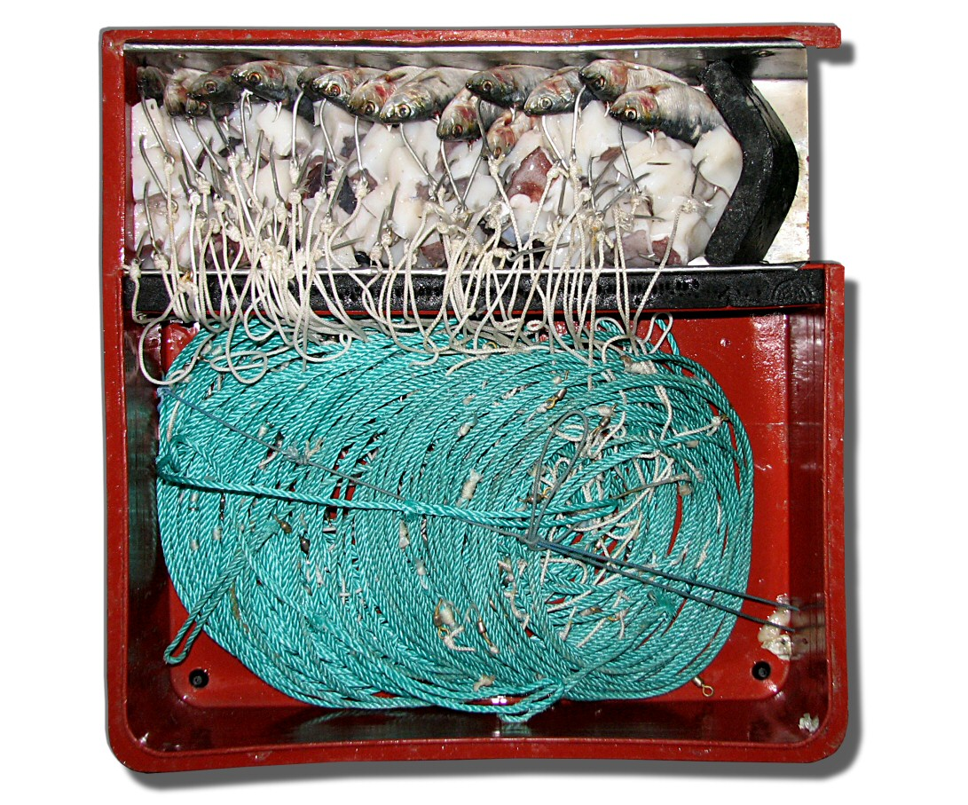 Longline hooks baited with sardina and giant Peruvian squid (Dosidicus gigas) prepared for Antarctic toothfish (Dissostichus mawsoni) fishing